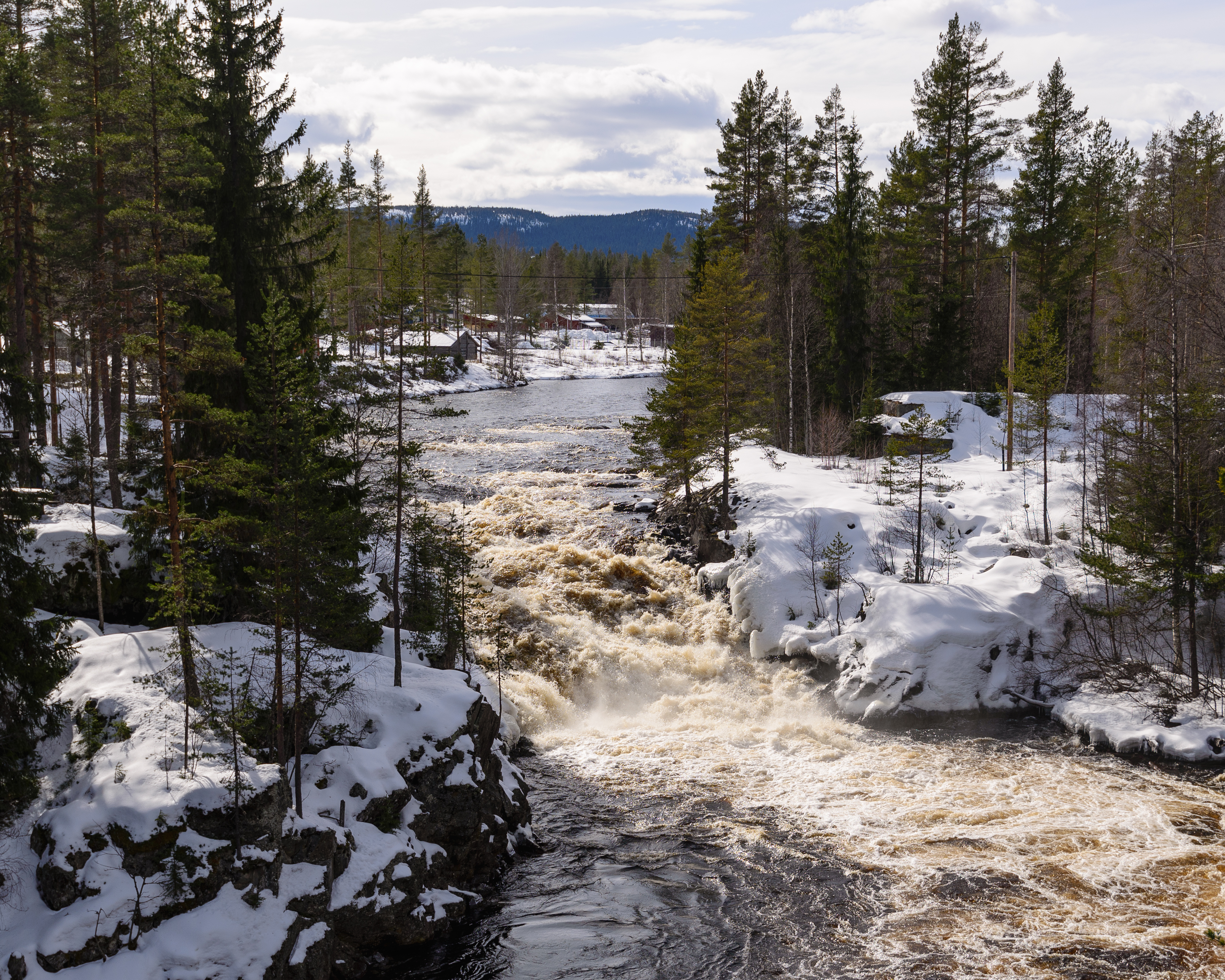 Oreälven (Ore river) at Noppikoski in Orsa Municipality.